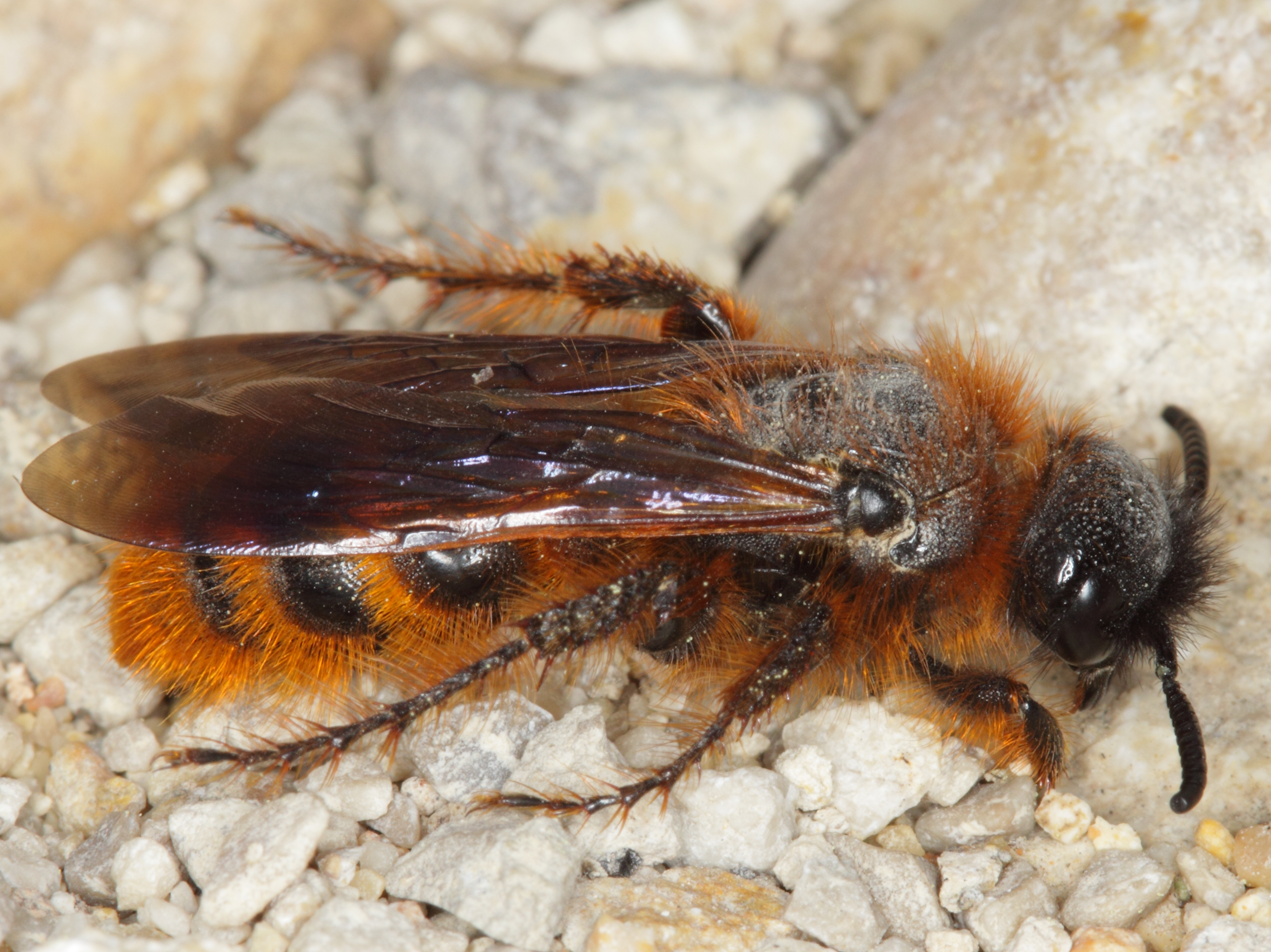 Phylum: Arthropoda Subphylum: Hexapoda Class: Insecta (insects, Insekten) Subclass: Pterygota Order: Hymenoptera (Hautflügler) Suborder: Apocrita (Taillenwespen) Superfamily: Vespoidea Family: Scoliidae LATREILLE, 1802 (scoliid wasps, Dolchwespen) Subfamily: Scoliinae LATREILLE, 1802 Tribus: Campsomerini Genus: Dasyscolia BRADLEY, 1951 [Syn.: Campsocolia] Dasyscolia ciliata FABRICIUS, 1787 (Bewimperte Dolchwespe) Spain, Andalusia, Jaen: Santa Catalina (Parador), ca. 750m asl., 03.04.2012 IMG_9929 (andalucia0139)